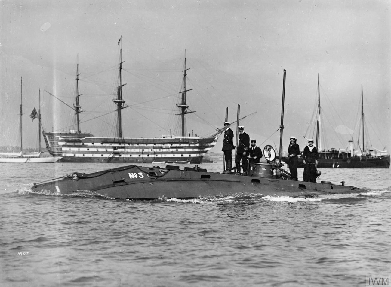 IWM caption : "HM Submarine No 3. This was a 'Holland' type submarine. One of 5 experimental craft, in service by 1903. Broken up in 1913. HMS VICTORY is in the background."